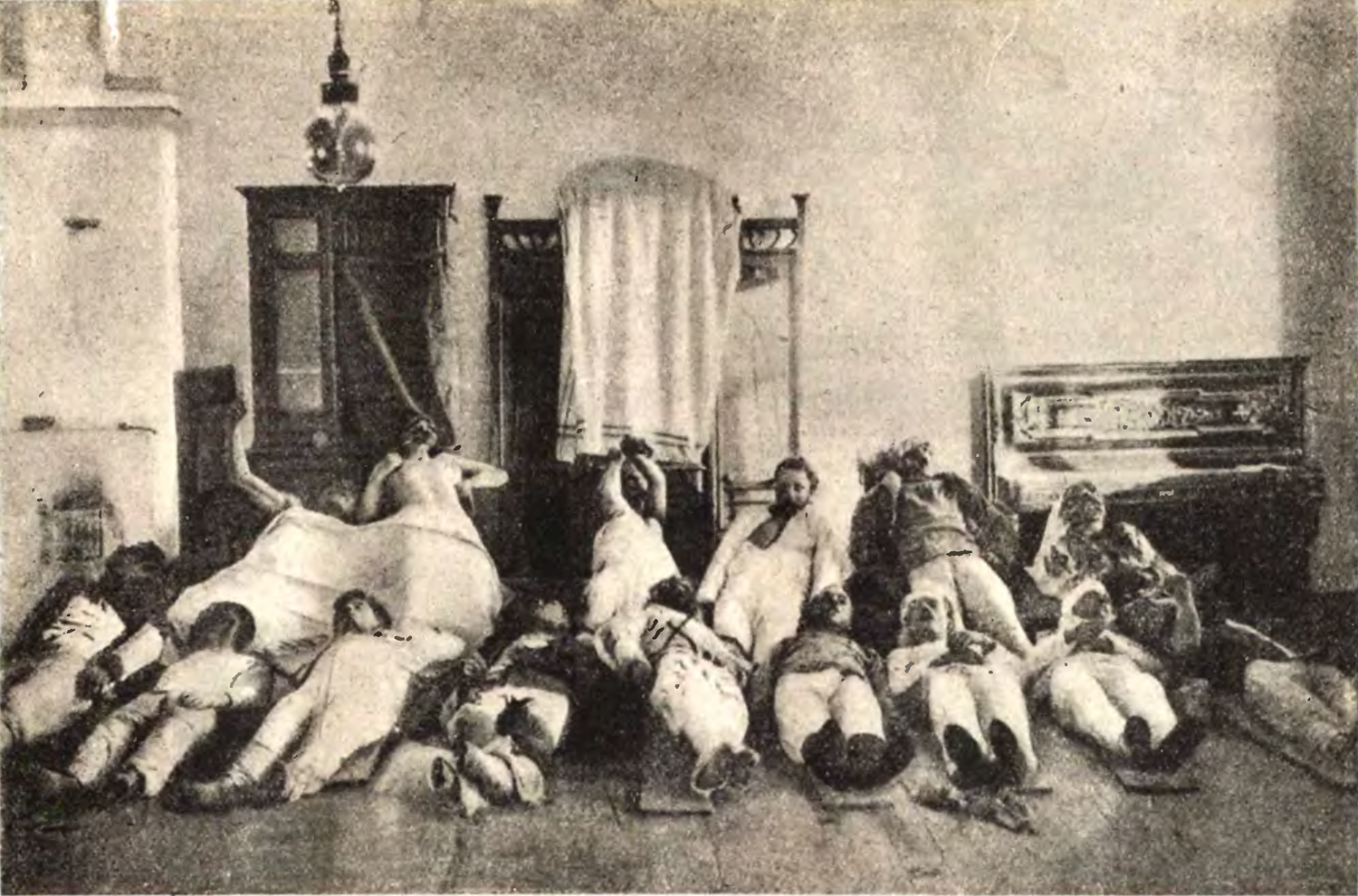 The bodies of murdered in Berdyansk during the raid of the Makhnovists in December, 1920. The cross marks the body of the Chairman of the revolutionary Committee of the Berdyansk Teviy Moiseyevich Mihalovich.